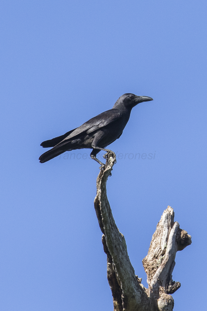 Slender-billed Crow - Meru Bethiri - East Java_MG_7262